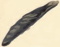 Stainton’s Natural History of the Tineina (1855–1873): Coleophora gnaphalii larval case